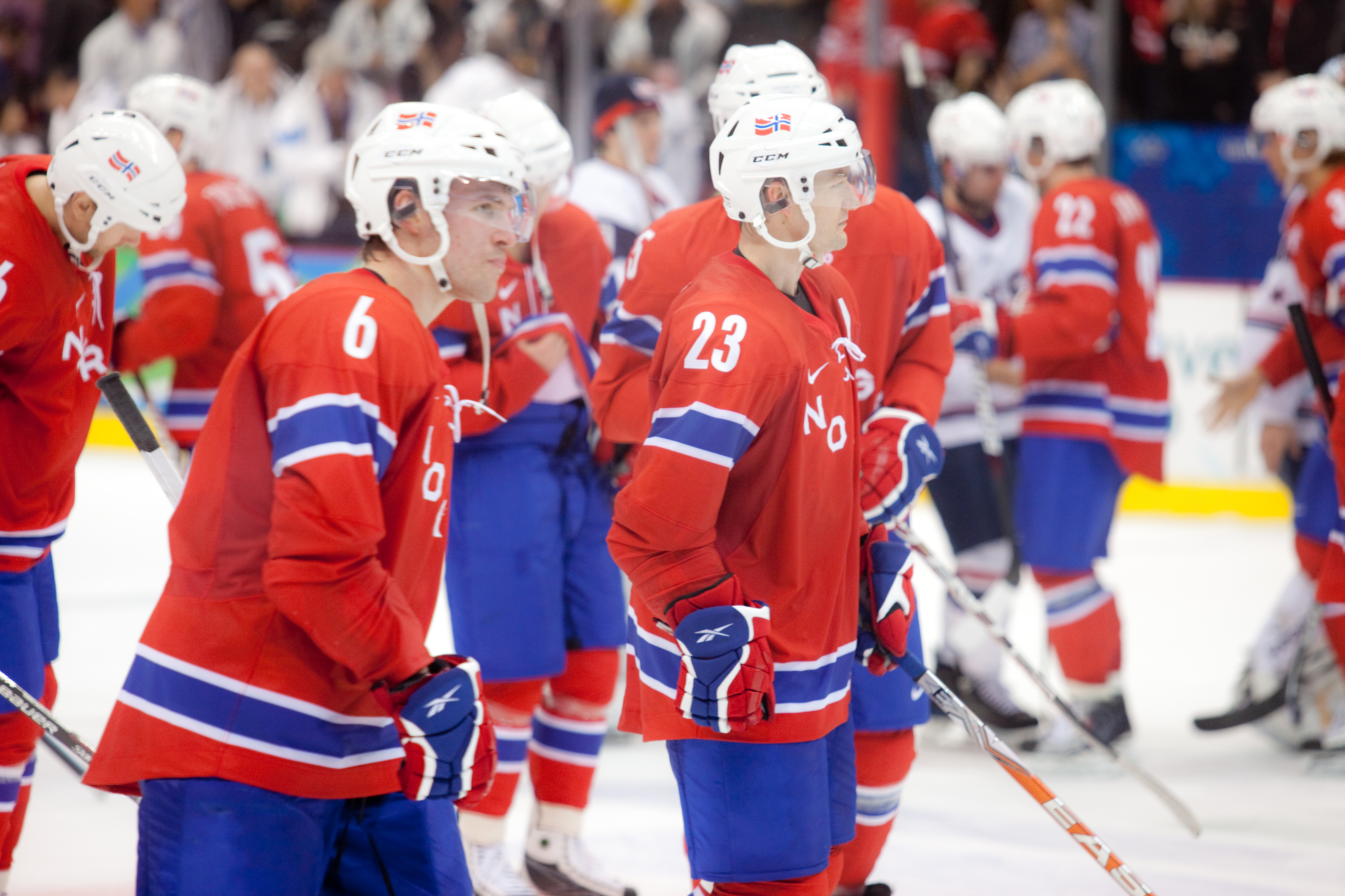 Jonas Holøs (#6) and Mats Trygg (#23) of Norway during the 2010 Winter Olympics